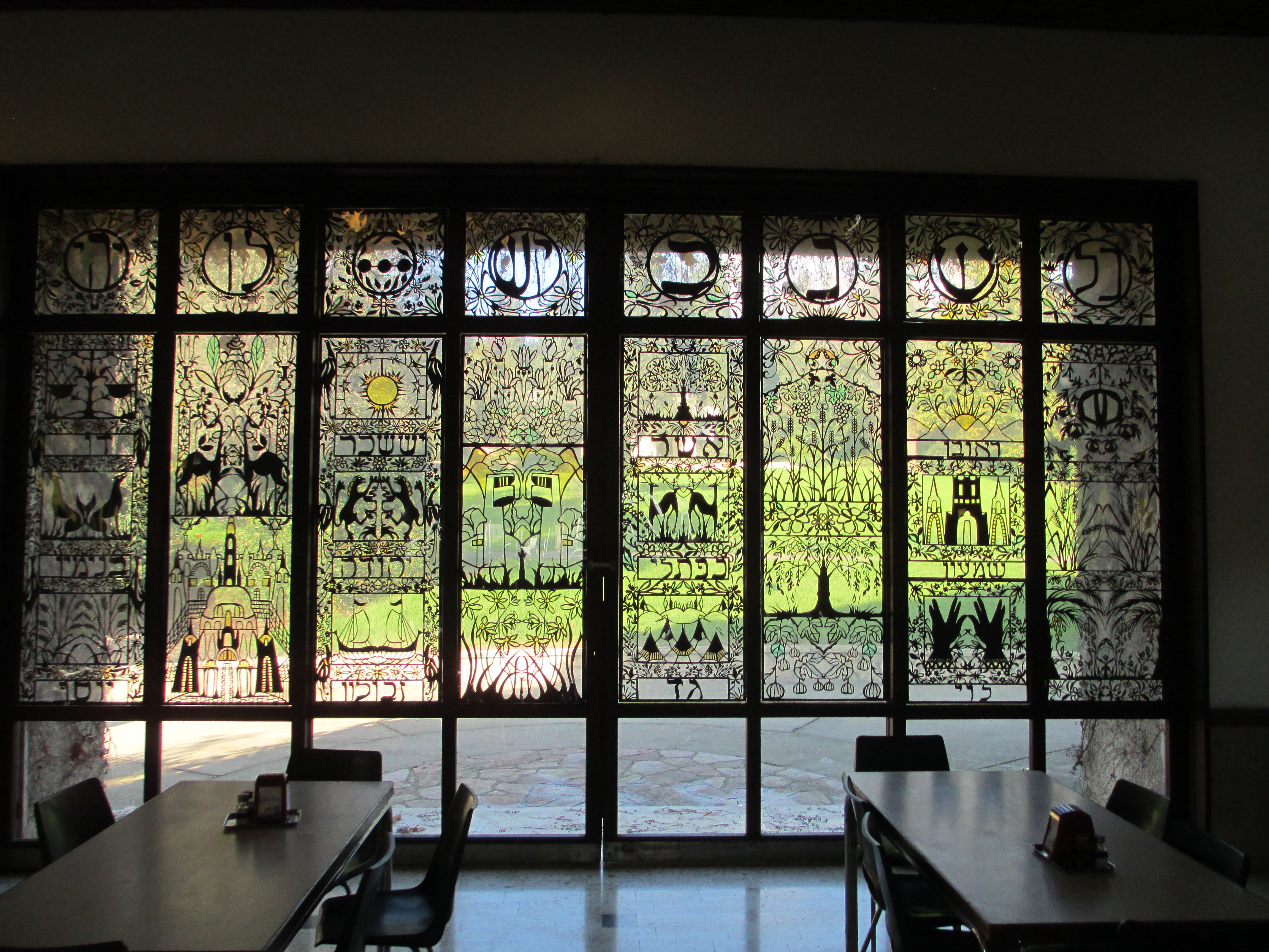 Kibbutz Ginegar-dining room